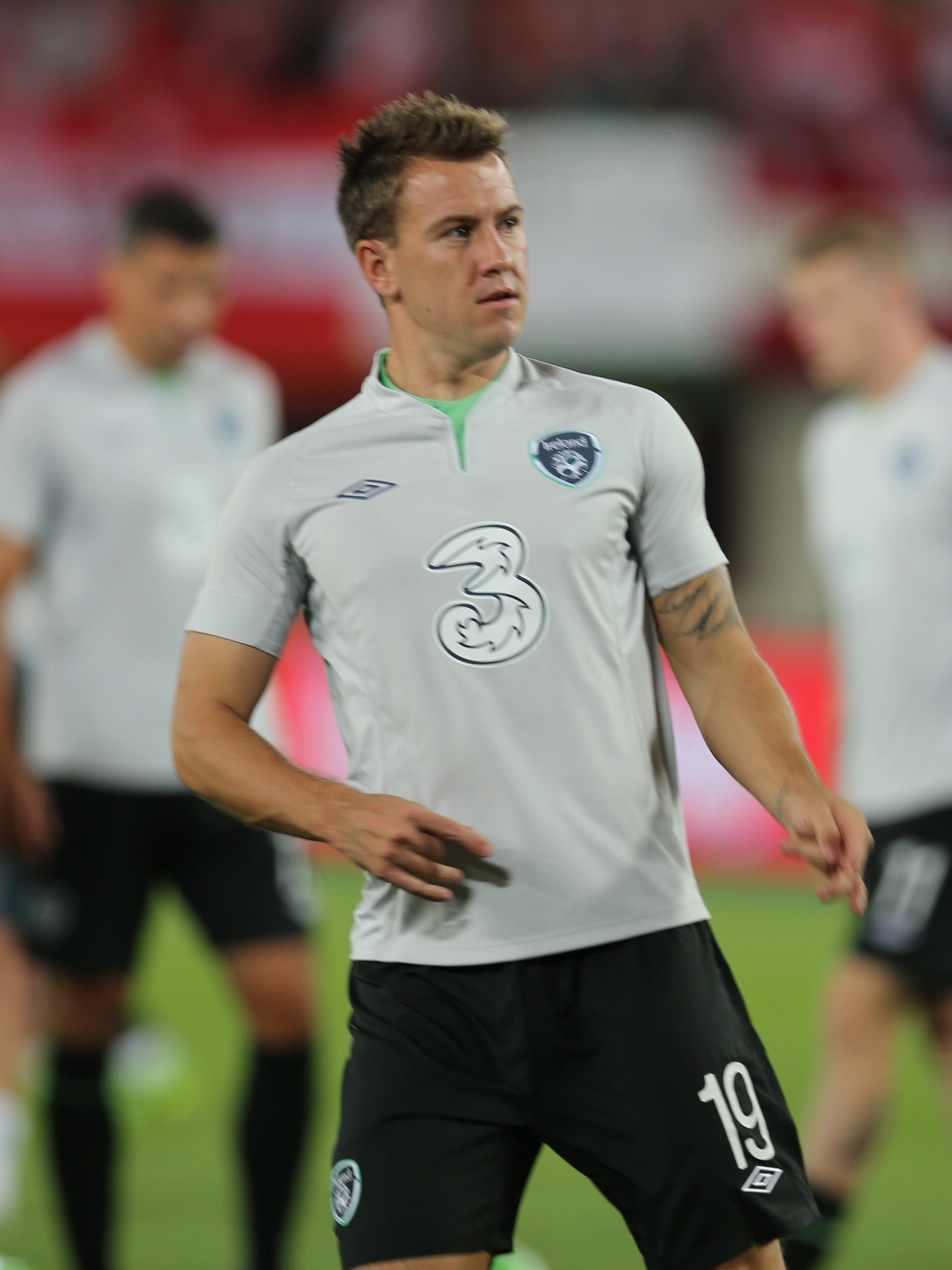 2014 FIFA World Cup qualification (UEFA), Group C: Republic of Ireland national football team at 10. September 2013 before the match against the Austria national football team (0:1) in the Ernst-Happel-Stadion in Vienna. Here: Simon Cox, Irish striker. The making of this work was supported by Wikimedia Austria. For other files made with the support of Wikimedia Austria, please see the category Supported by Wikimedia Österreich.